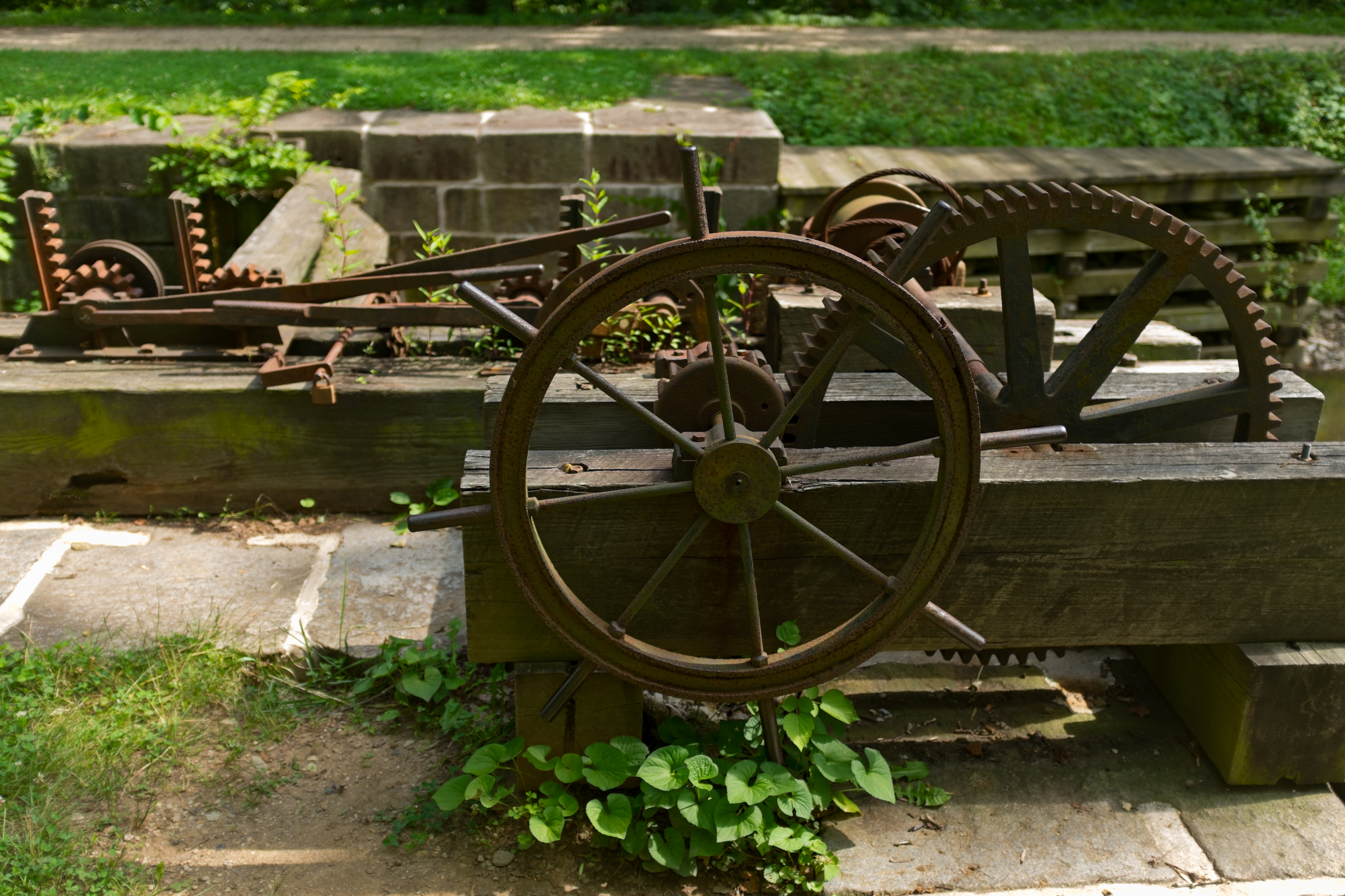 Drop lock mechanism of Lock 10 (Seven Locks) on the Chesapeake and Ohio Canal